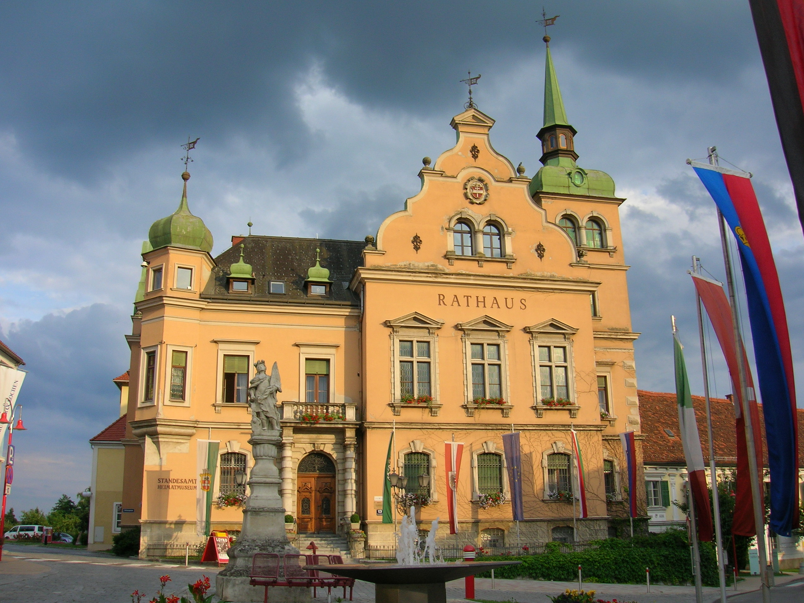 the townhall of Gleisdorf, a city in Styria in Austria